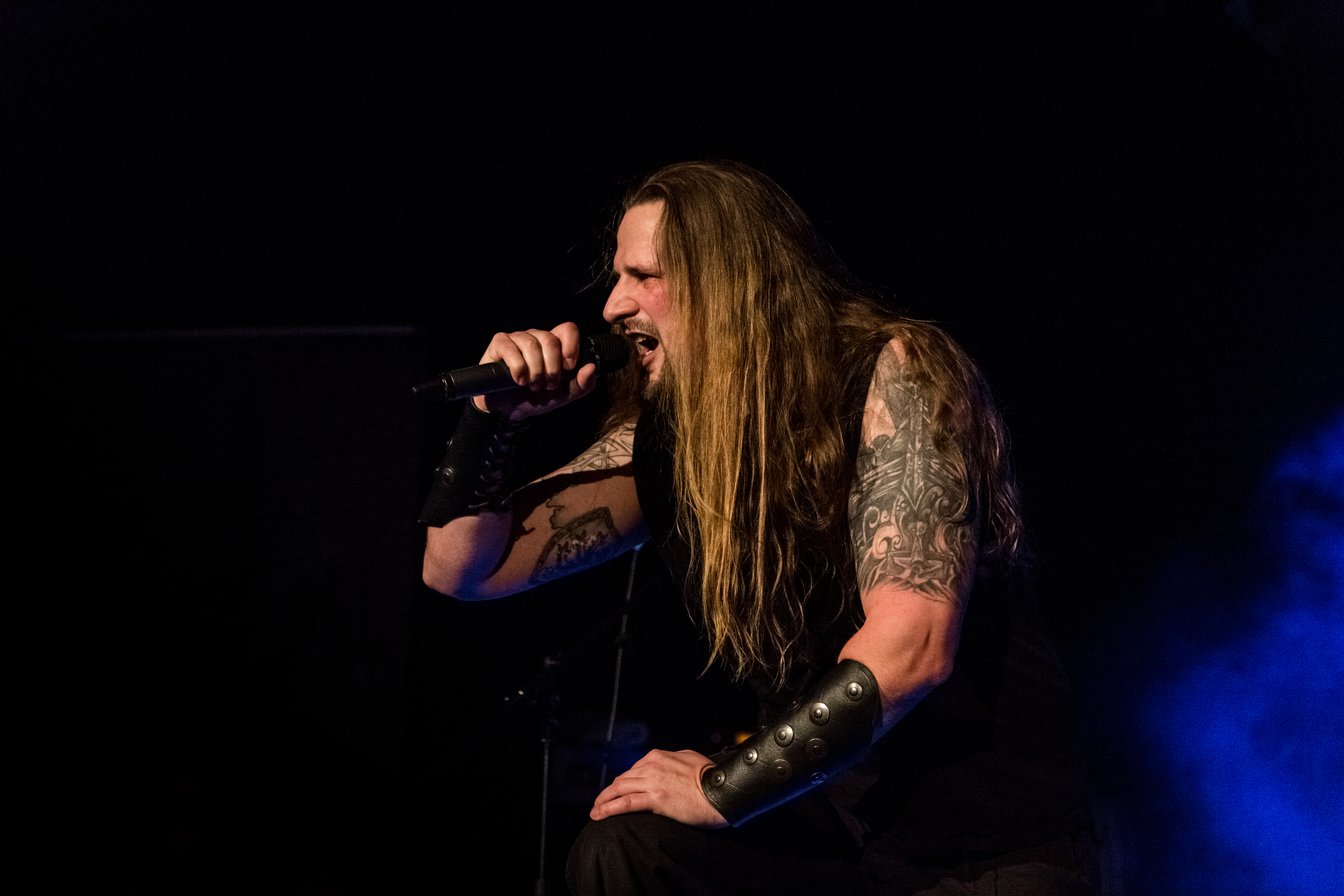 Obscurity - Live Club Barmen 2016